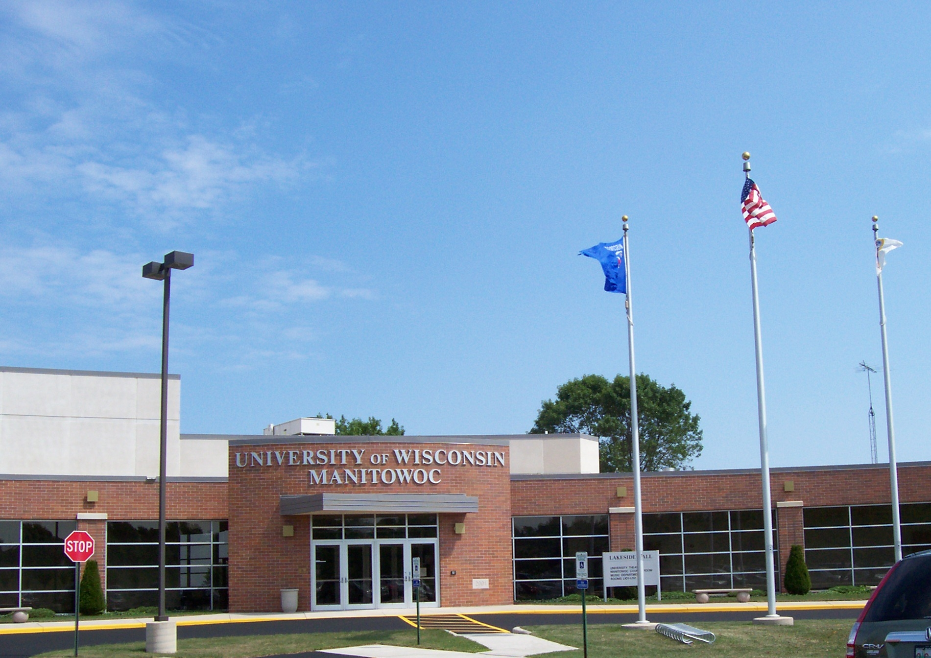 The main entrance to the University of Wisconsin-Manitowoc in Manitowoc, Wisconsin, USA. Cropped from the original.